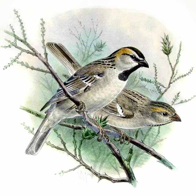 Saxaul Sparrow (Passer ammodendri)